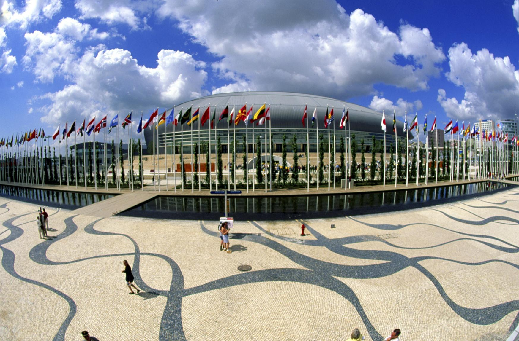 the atlantic pavillion in lisbon and the flags of the world